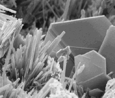 Scanning electron microscopy image of fracture surfaces of hardened cement paste, showing plates of calcium hydroxide and needles of ettringite (micron scale)